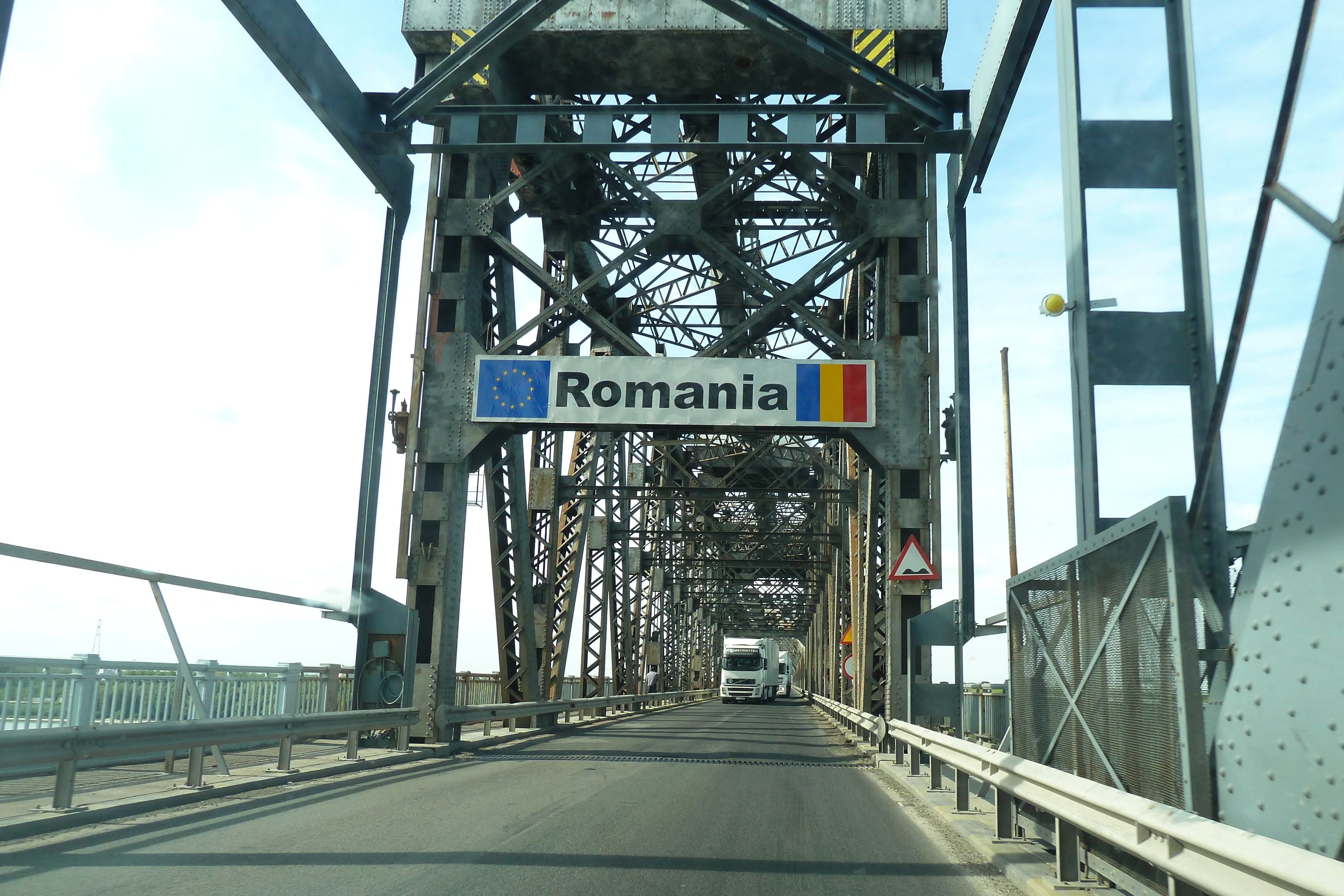 Crossing into Romania from Bulgaria on the Danube Bridge (former Friendship Bridge)